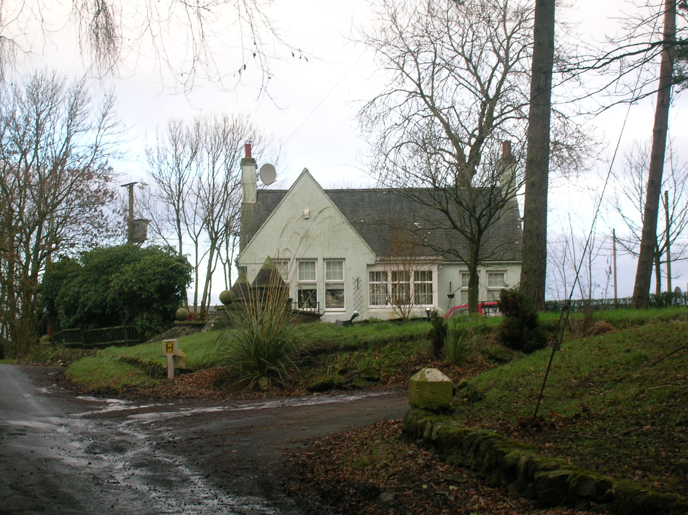 Chapeltoun House lodge in East Ayrshire. January 2007.